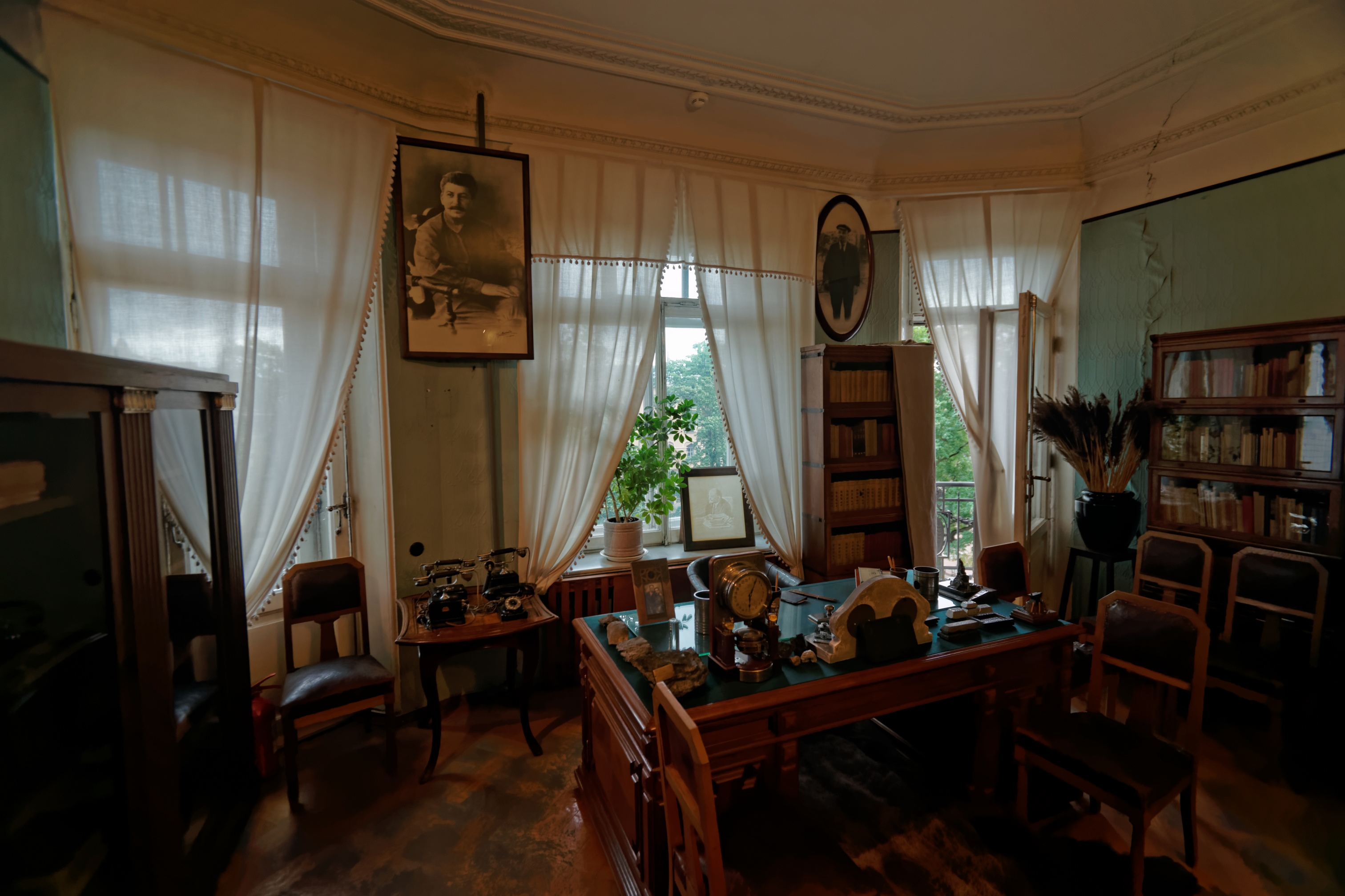 Санкт-Петербург / St Petersburg - Каменноостро́вский проспе́кт / Kamennoostrovsky Prospekt 26-28 - Museum Apartment S.M.Kirov (Серге́й Миро́нович Ки́ров)